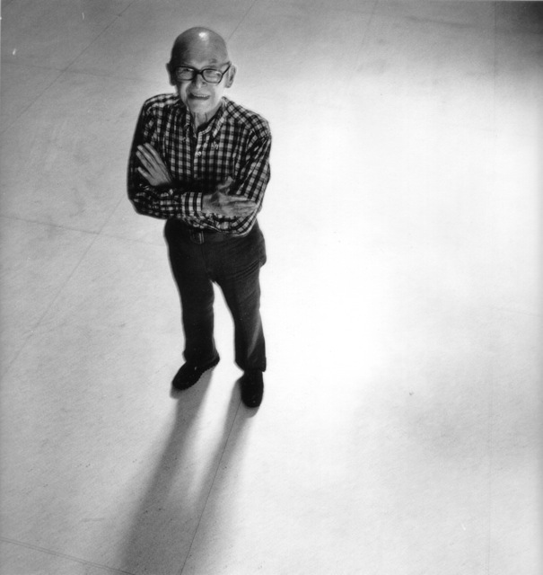 Photographer Max Yavno at the G. Ray Hawkins Gallery, West Hollywood, 1980s. Photo by Chris Gulker